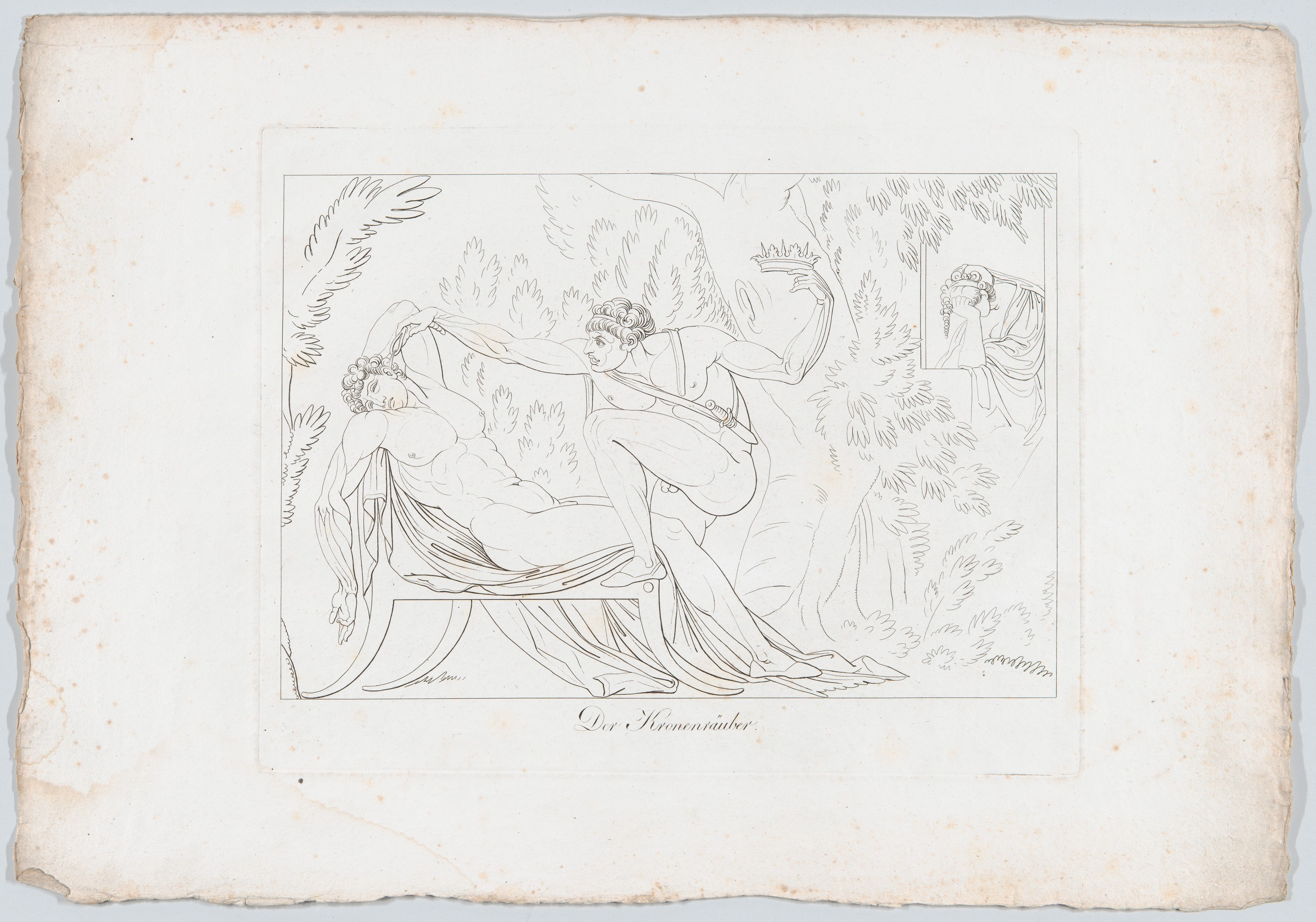 Print; Prints